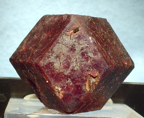 Spessartine Locality: Shengus (Shingus), Haramosh Mts., Skardu District, Baltistan, Northern Areas, Pakistan (Locality at ) Size: 4.7 x 3.6 x 3.5 cm. A very large, very sharp spessartine garnet crystal from Pakistan. This pristine, lustrous, lightly translucent, deep maroon crystal has textbook dodecahedral form and was for many years part of the Pala Properties/Bill Larson Garnet Collection and was on display at the Fallbrook shop. Rare in this size and quality from this locale.